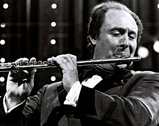 Publicity photo of Jean-Piere Rampal to promote a Boston Pops show 1in 1977.